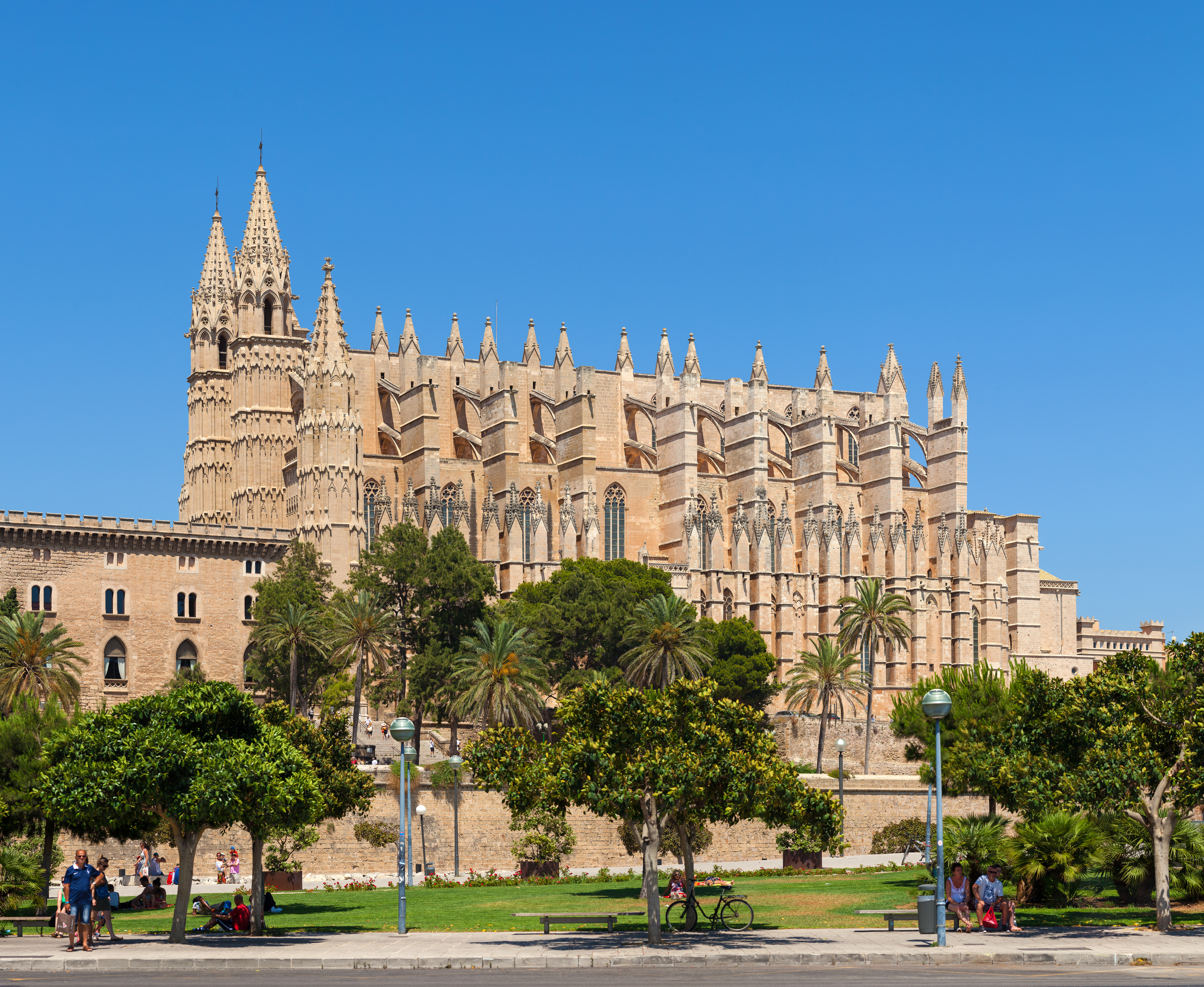 Palma Cathedral in Palma de Mallorca, Majorca, Spain